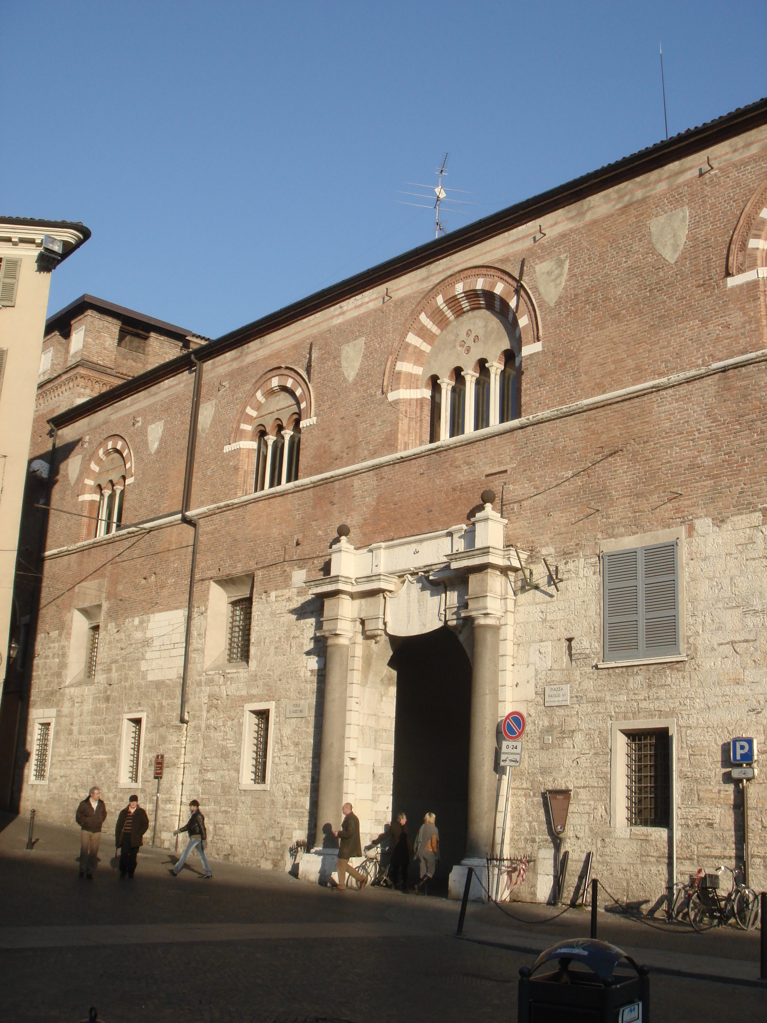 Broletto, the ancient City Hall, in Brescia. It was originally built in Romanesque style. Picture by Stefano Bolognini.